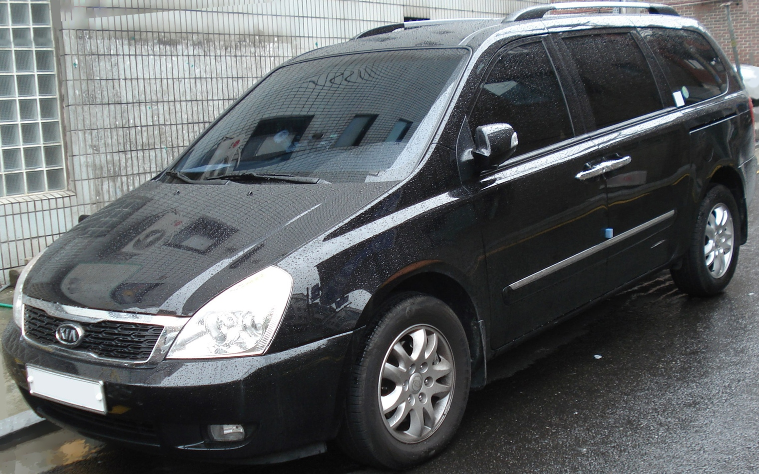 Kia Grand Carnival